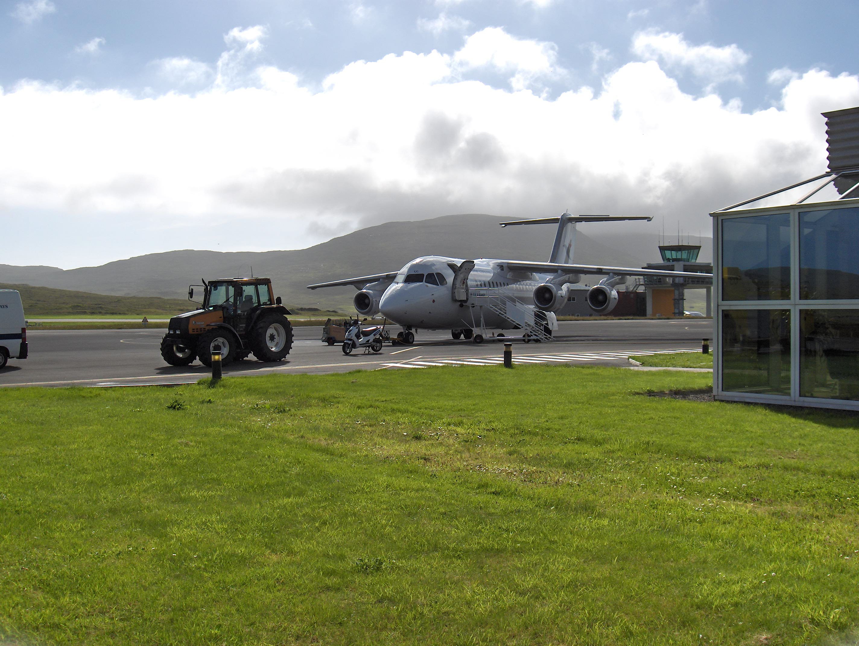 Avro RJ aircraft of Atlantic Airways at Vagar Airport, Faroe Islands